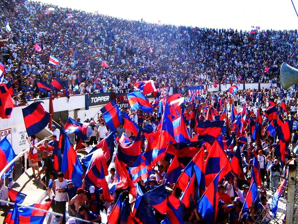 Tigre 2006 Hinchada